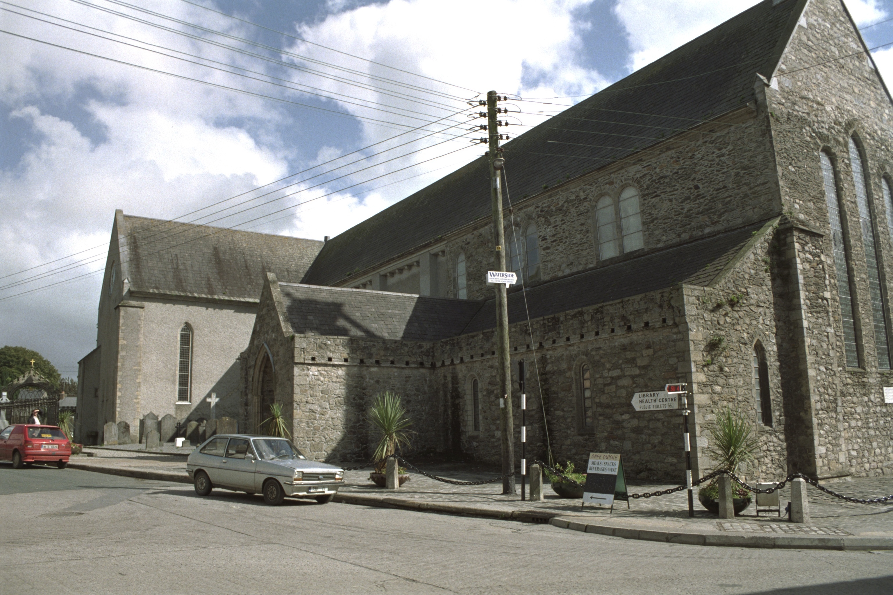 Graiguenamanach, County Kilkenny, Ireland Duiske Abbey as seen from T-junction Abbey Street / Main Street.